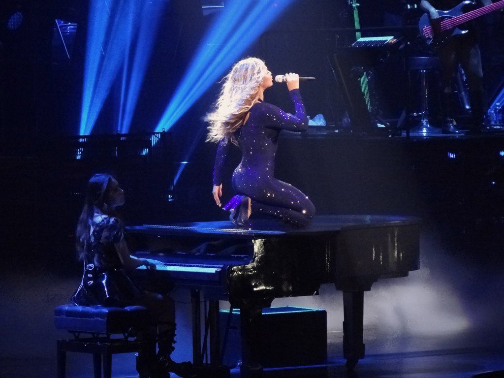 Beyonce performing "1+1" in Montreal in 2013 during The Mrs. Carter Show World Tour.